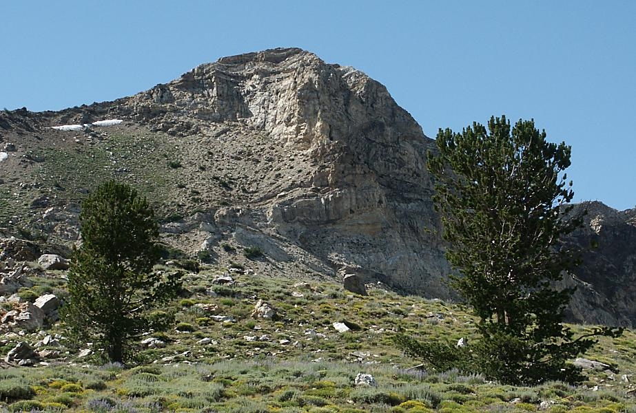 Greys Peak in the East Humboldt Range of Nevada, looking northwest from near Chimney Rock.